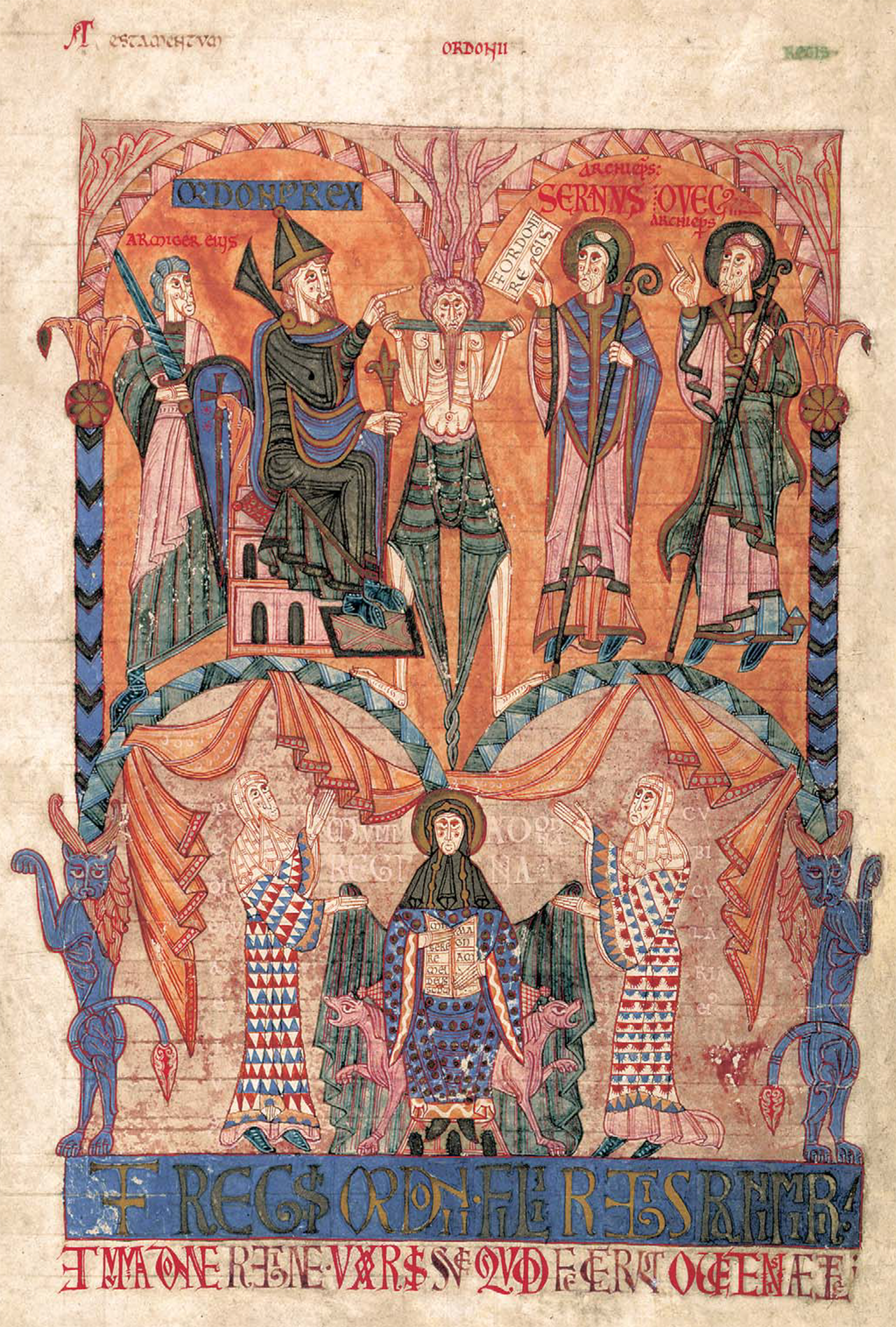 Ordoño I of Asturias